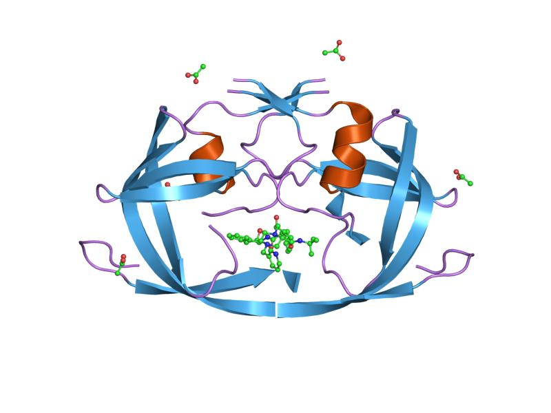 Cartoon representation of the molecular structure of protein registered with 1k6c code.